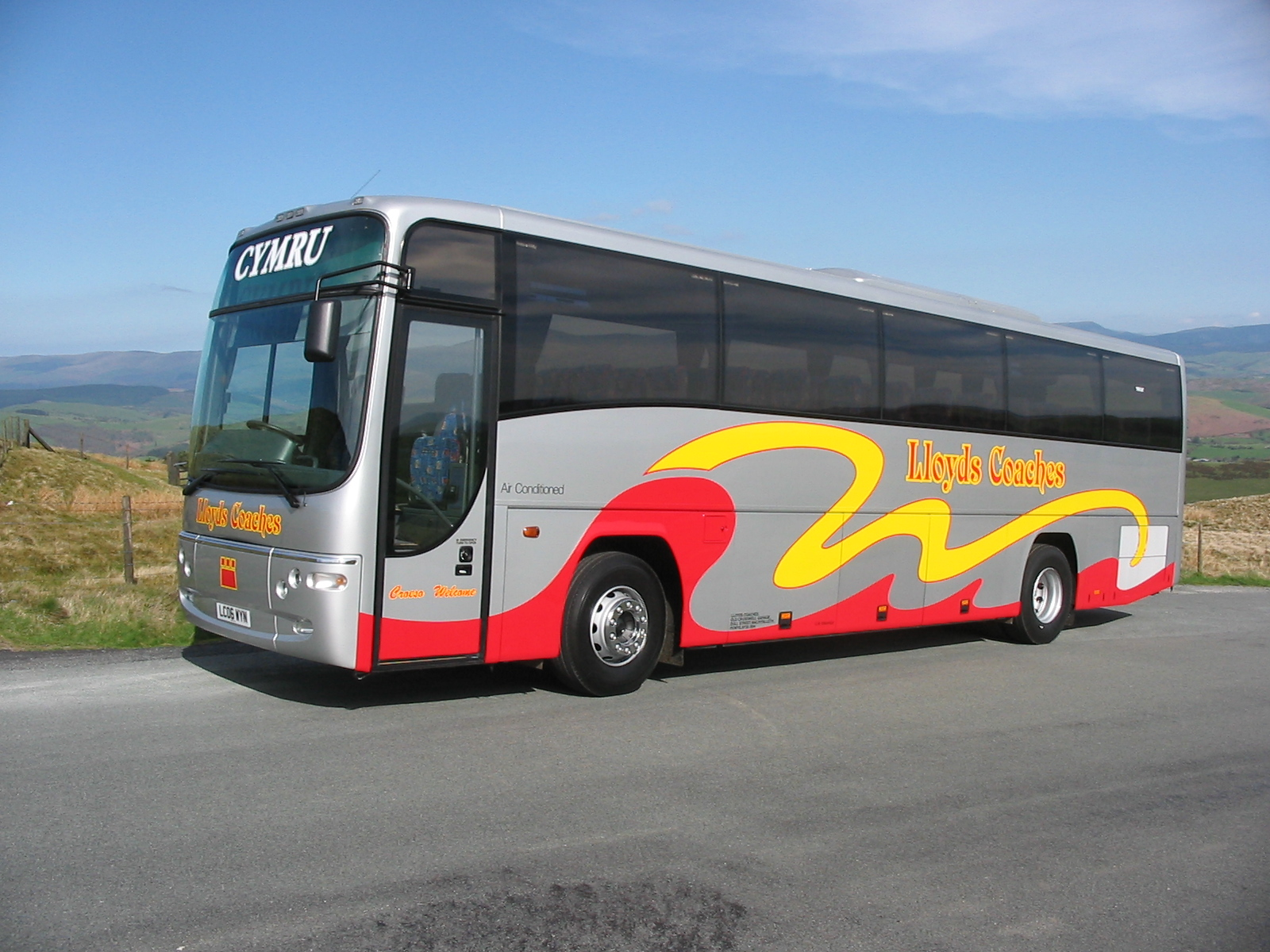 Lloyds Coaches LC06 WYN, a Volvo B12B/Plaxton Paragon, seen when only around a month old.